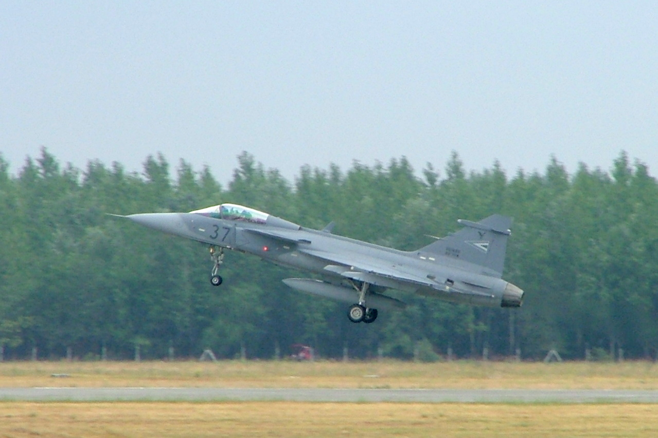 JAS 39 Gripen of the Hungarian Air Force, Kecskemét open day, 2007. Landing.